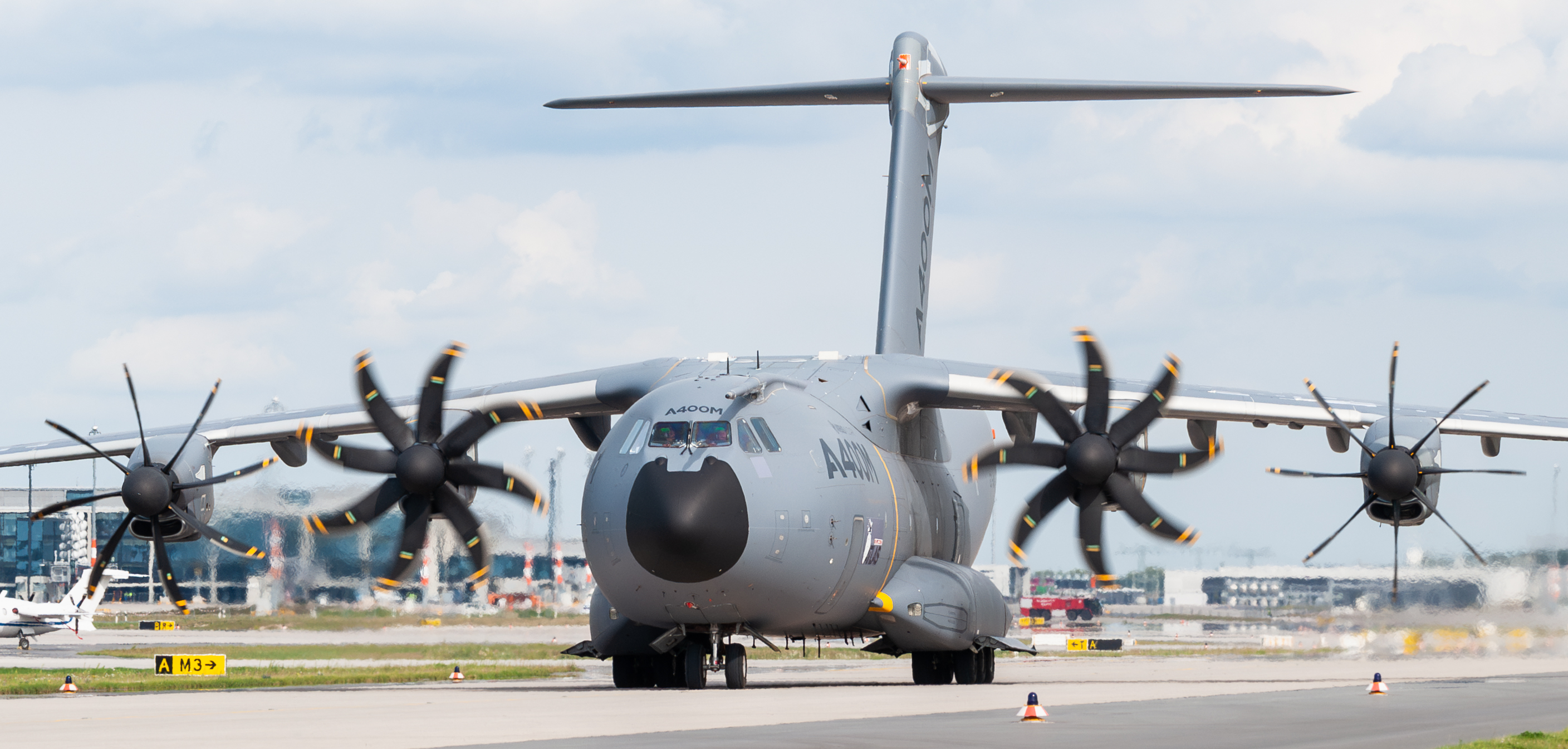 Airbus A400M (EC-404; MSN 004) at ILA Berlin Air Show 2012.